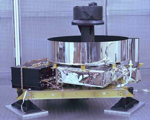 MOLA’s solid state laser fires short pulses of infrared light 10 times per second at the surface of Mars and measures the time for the reflections to return. Upon return to the satellite, a telescope focuses the light scattered by the terrain and possibly clouds, onto a series of detectors. By knowing the speed of light, the satellite’s position and its height above the planet, one can map the surface based on the return time of the pulse. The heights of mountains and the depths of valley’s will be revealed to a precision of 40 centimeters. Laser altimeters have a small footprint on the planet’s surface. MOLA’s beam is only 130 meters wide. Each track along the planet’s surface measures elevation continuously.